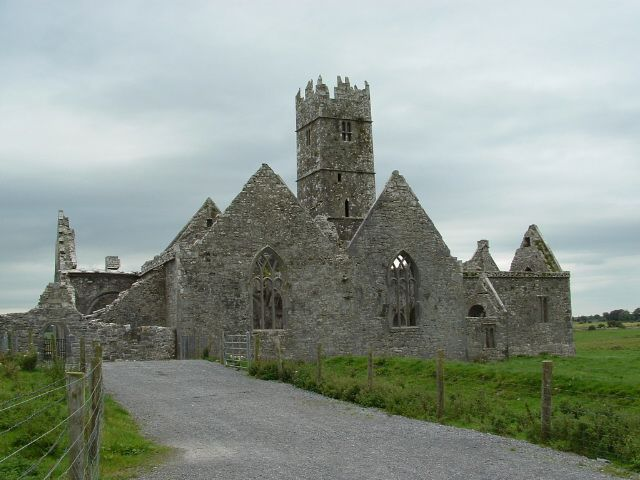 This is a photograph of the Ross Errilly Friary near Headford, Ireland. It was taken by me in 2004. Dppowell 03:12, 7 July 2006 (UTC)